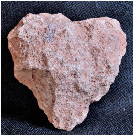 Small heart placed on top of Latin Heart Caches as described in the Priests Stone riddle.